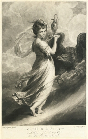 Johann Jacobé: Hebe, Miss Meyer (after Sir Joshua Reynolds)